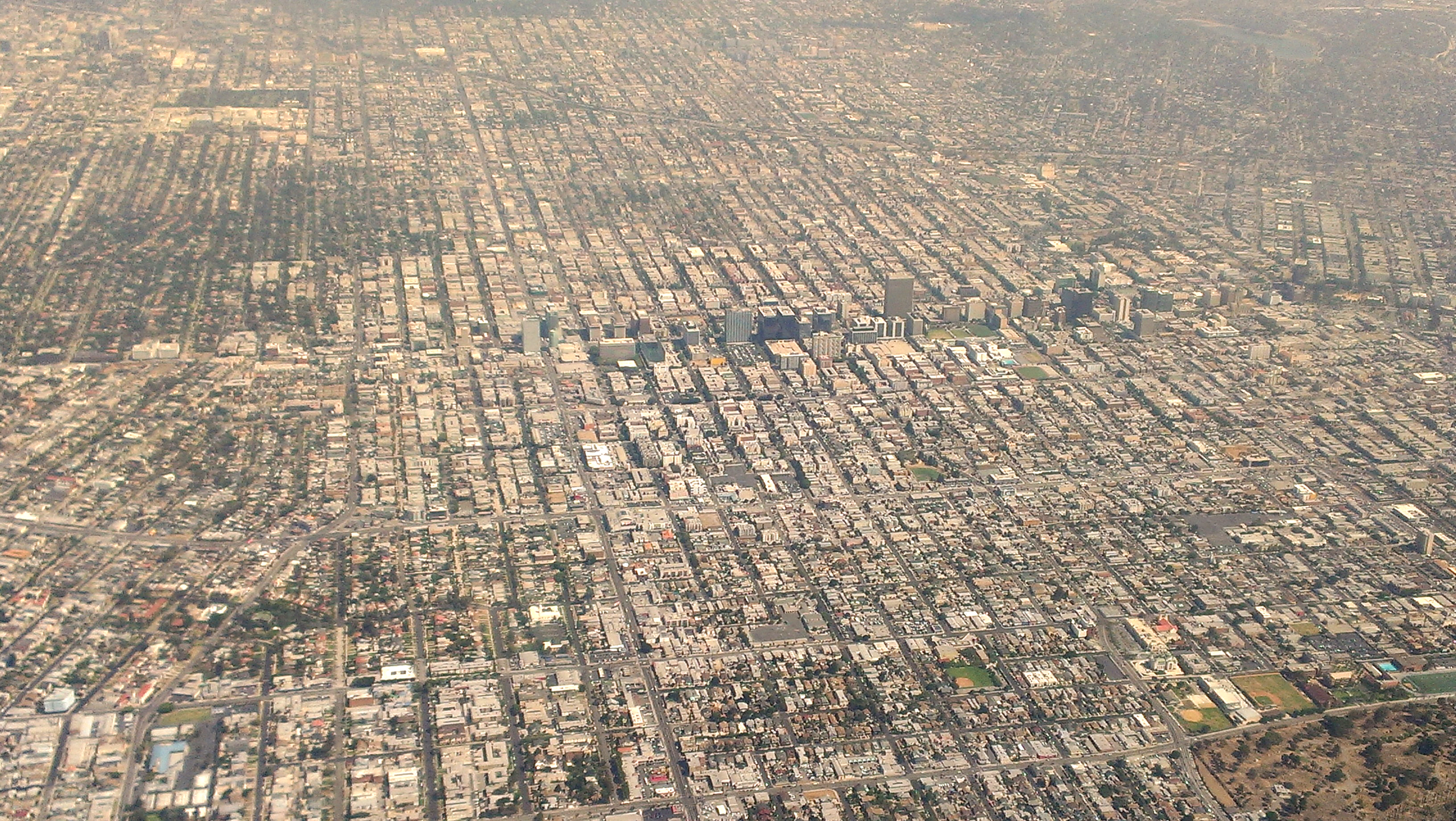 LA Koreatown